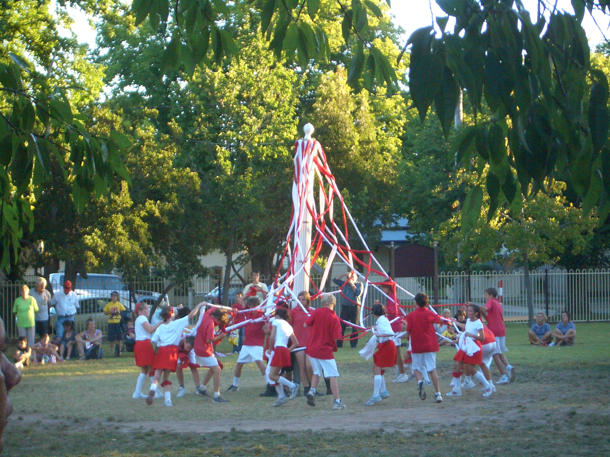 Students perform maypole dance, as the city brass band play music, at a Sale Primary School event, Sale, Victoria